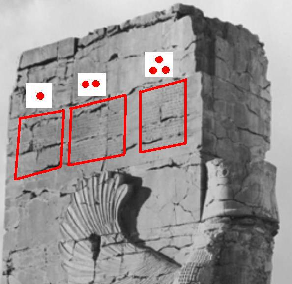 Position of three languages inscriptions on Gate of All Nations in Persepolis. 1) Akkadian 2) Old Persian 3) Elamite